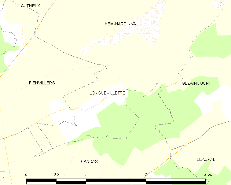 Map of French municipality Longuevillette